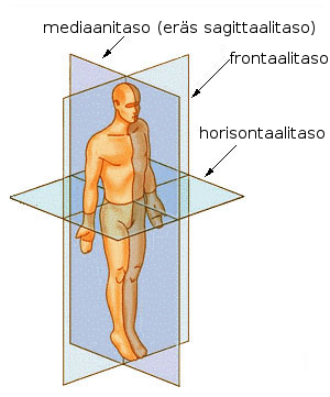 Human body planes (in Finnish).